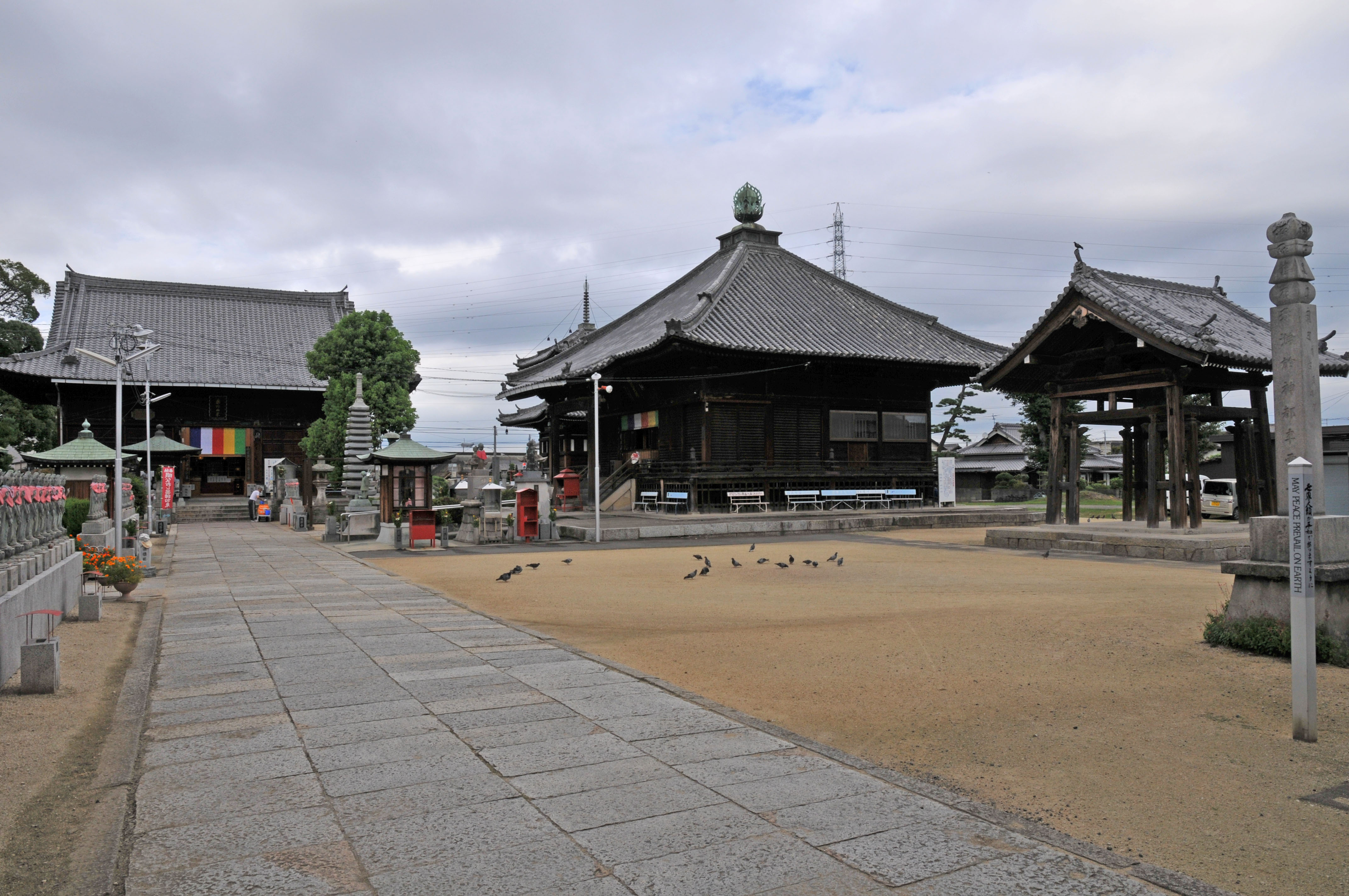 Dōryū-ji temple